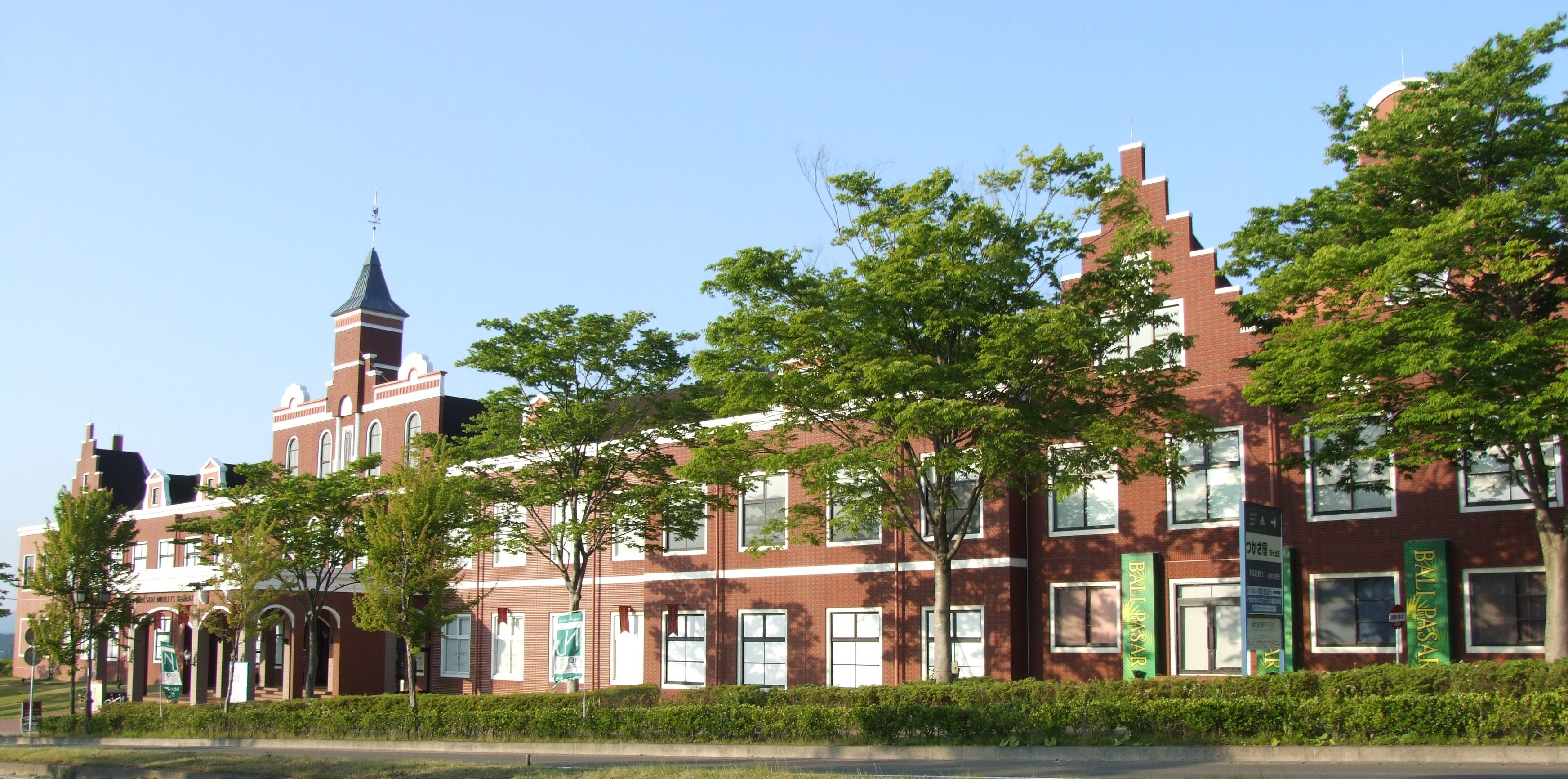 Hillside Outlets Sendai. Nishikigaoka 1 chōme, Aoba ward, Sendai, Miyagi prefecture, Japan. First outlet mall in Tōhoku region of Japan.